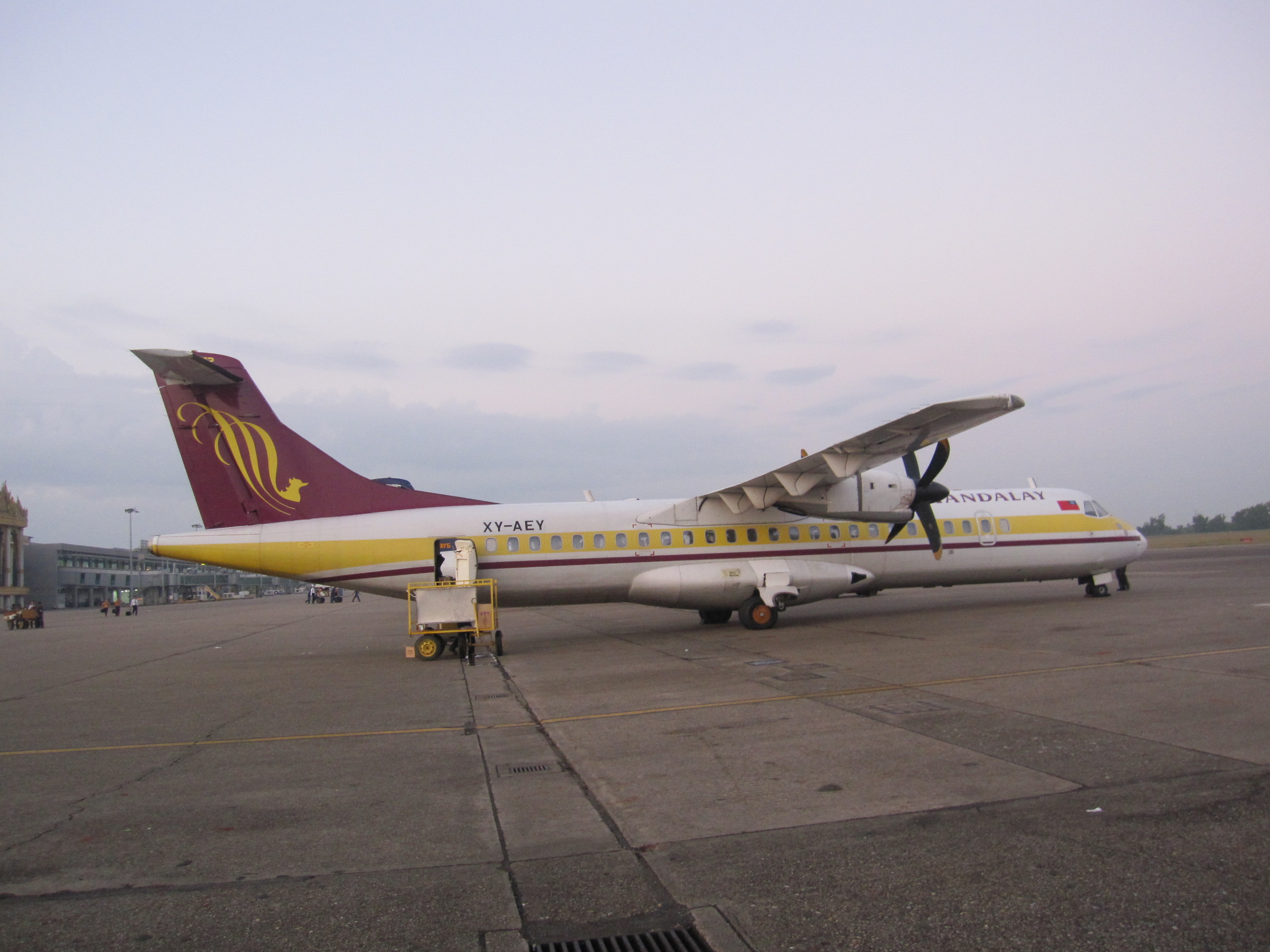 Air Mandalay's ATR 72 at Yangon Airport